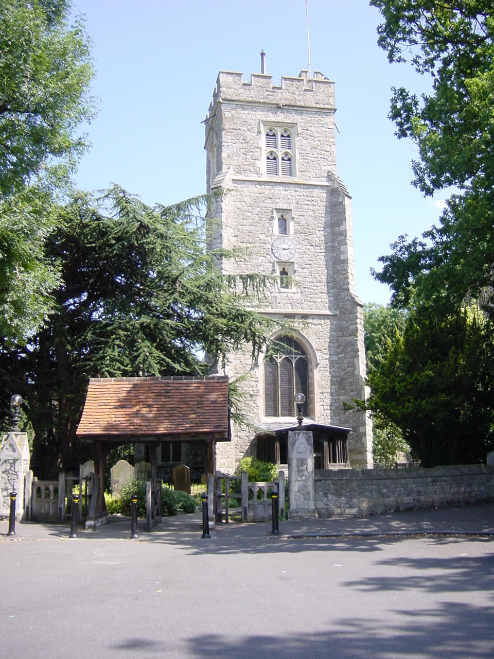 St Leonard's parish church, Heston, Middlesex, seen from the west